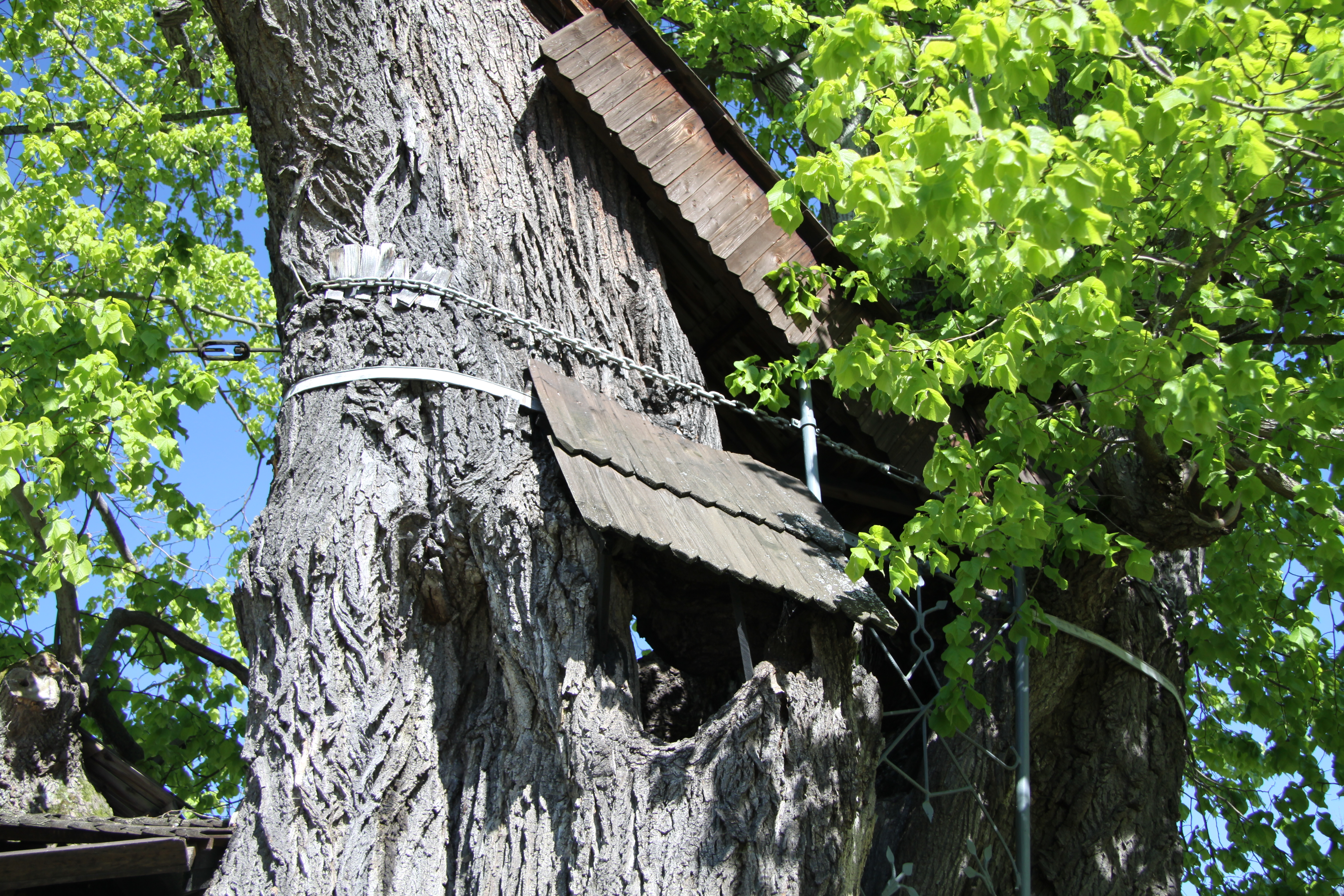 Famous tree called "Sudslavická lípa" in Sudslavice village near Vimperk, Prachatice District, Czech Republic